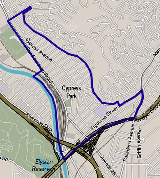 Map of the neighborhood of Cypress Park, California, as delineated by the Los Angeles Times. Other information Boundary map as drawn by the Los Angeles Times on a CC-by-SA background. Note at bottom right of map on the L.A. Times website noted above says "CC-by-SA" (which gives permission to use the map). There is a link there to which explains the meaning thereof. The base map is credited to The Times spells all this out at